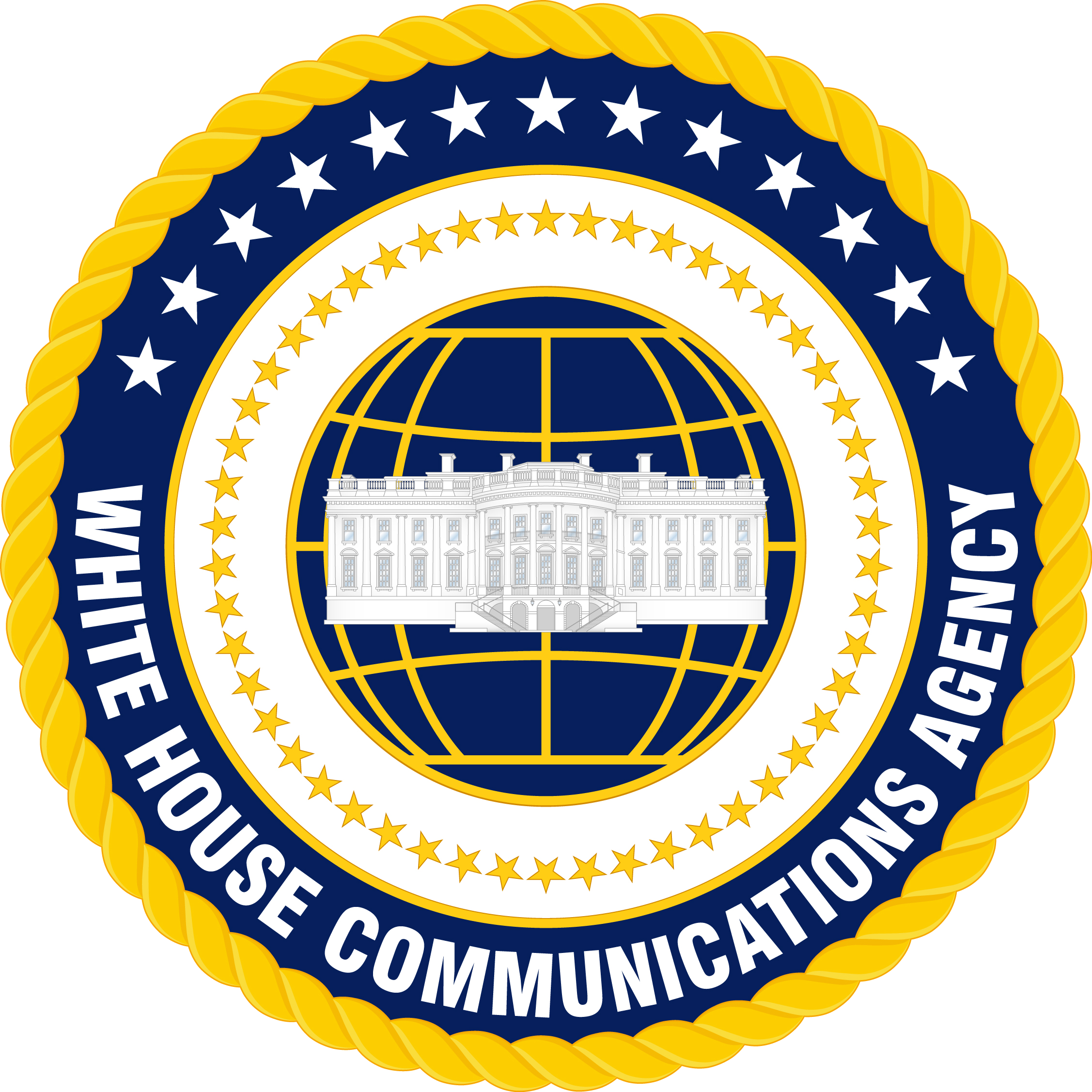 The official White House Communications Agency seal